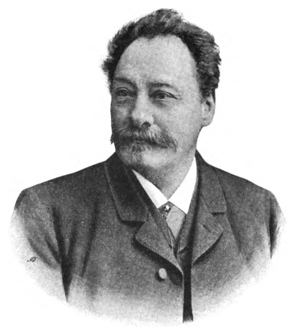 Georg Meisenbach (1841-1912), German photographer, copperplate engraver, inventor and entrepreneur